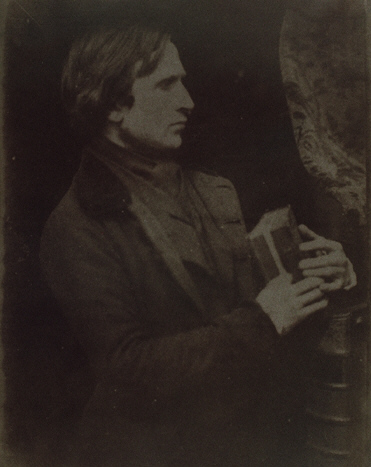 Robert Adamson, (1821 – 1848), Scottish pioneer photographer.